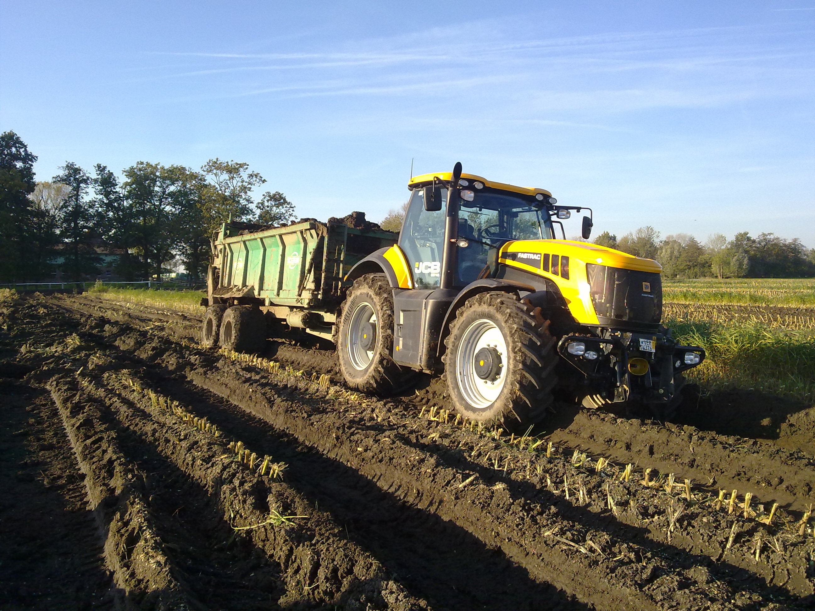 JCB Fastrac 8310 tractor with Tebbe manure spreader